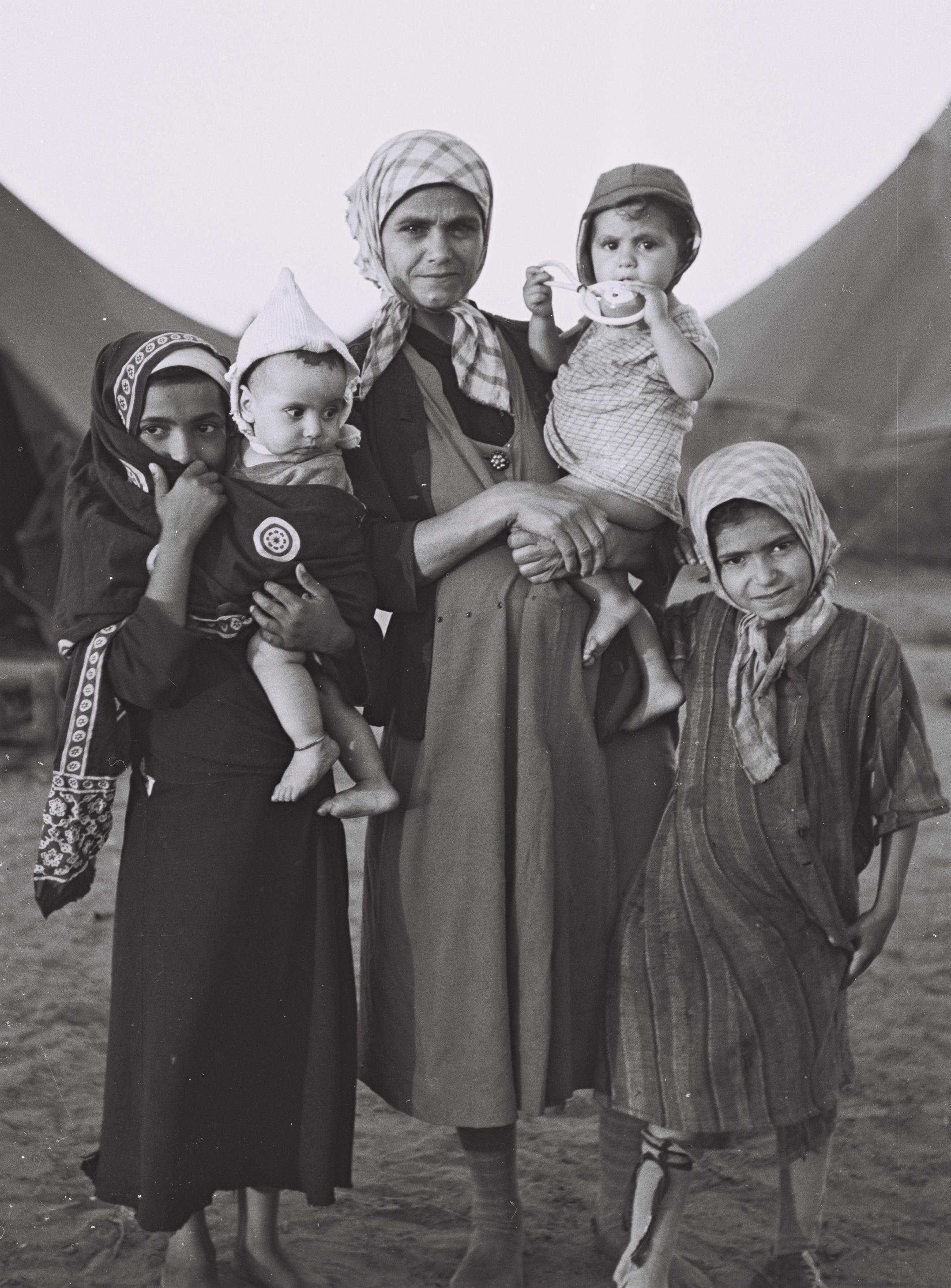 A TWELVE-YEAR OLD JEWISH YEMENITE MOTHER IN "HASHED CAMP" NEAR ADEN, YEMEN.